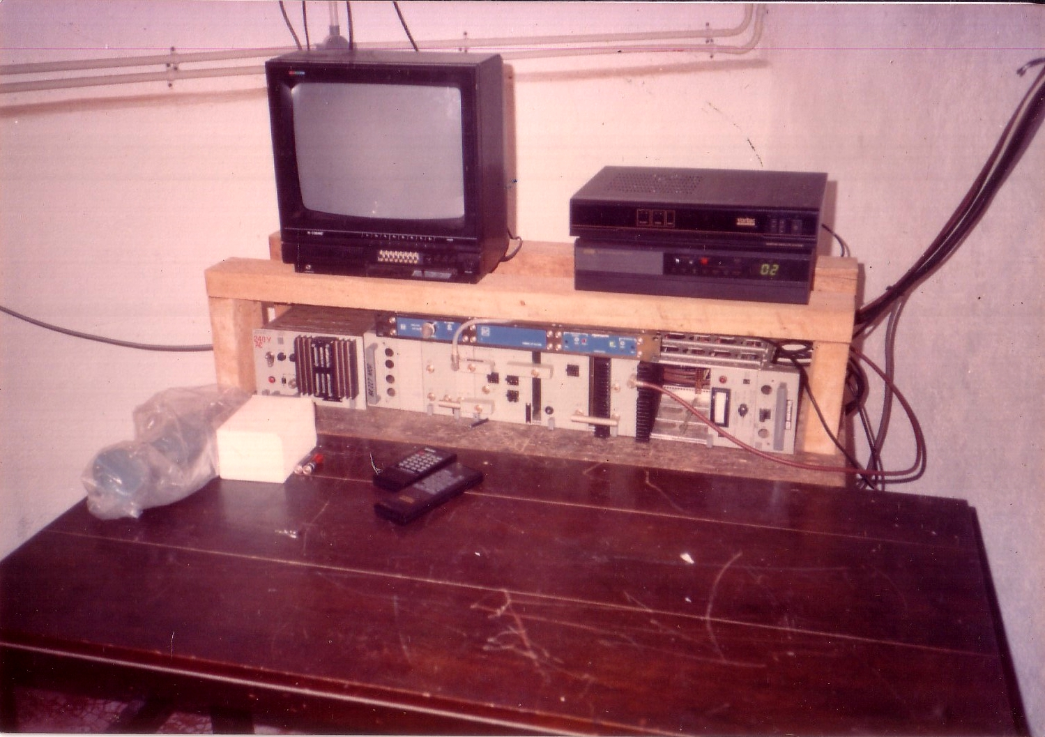 The microwave transmitter in Peliyagoda (East-West Properties), Sri Lanka. The control room was under (inside) the 50 foot satellite dish receiver. The transmitter was broken into two parts on Priyanke's advice and the 2nd part )head end) was on the antenna tower itself.